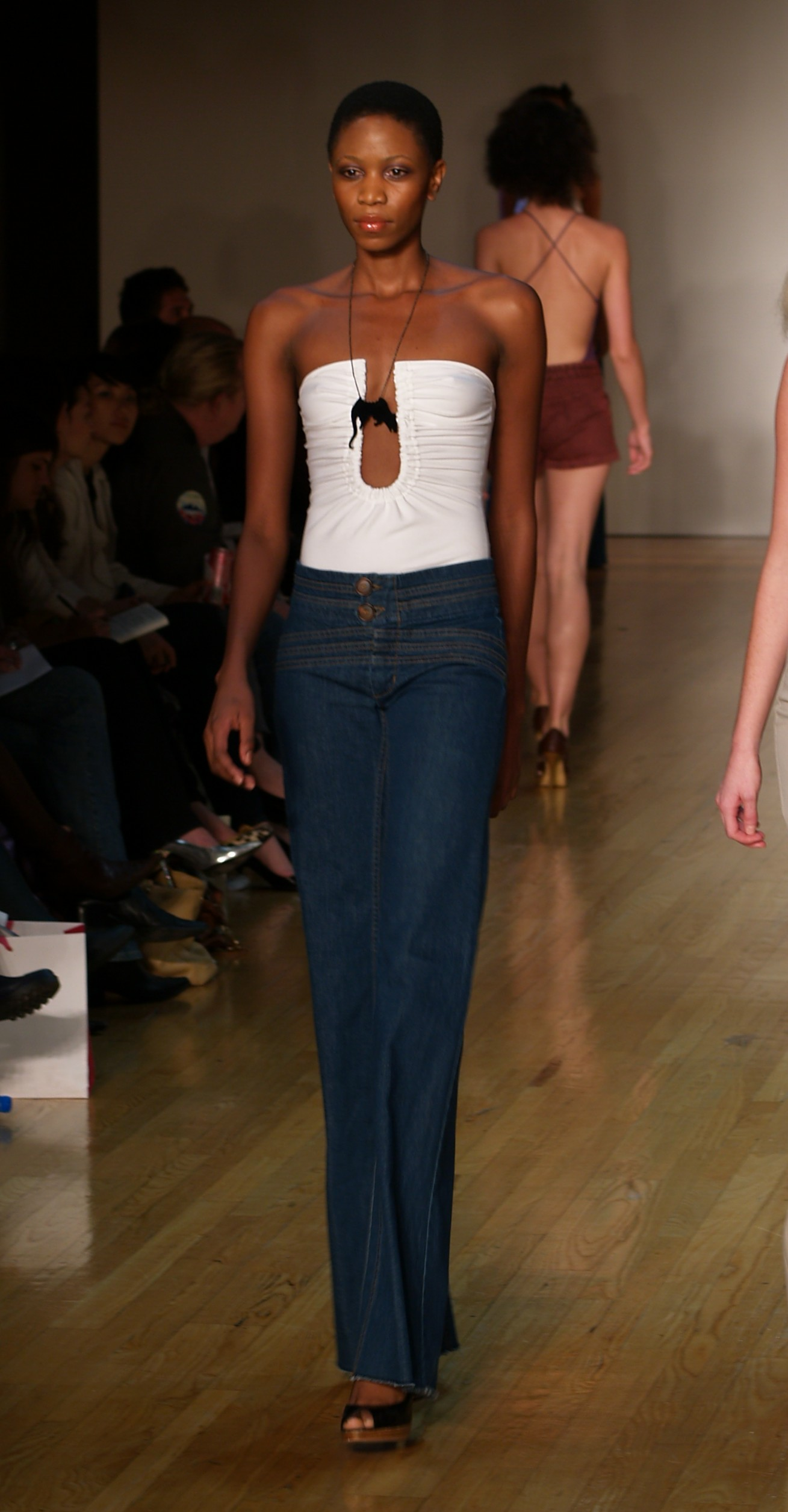 Camilla Barungi modeling for Grey Ant spring 2007, New York Fashion Week